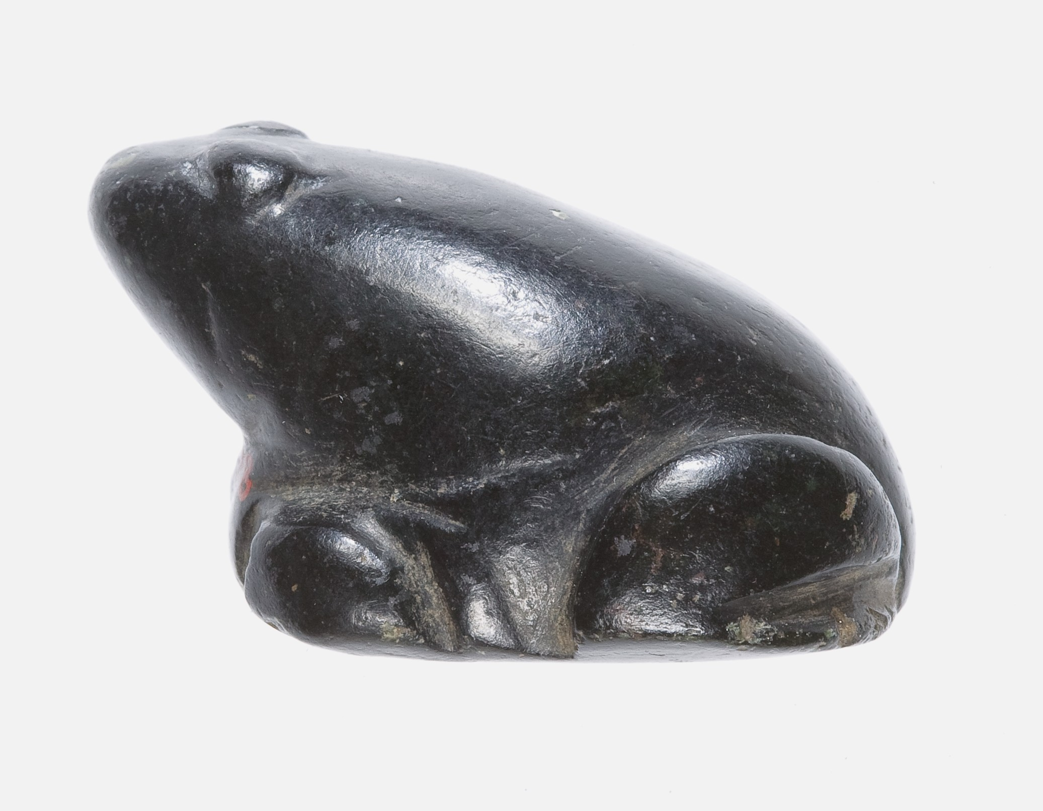 Amulet, Frog